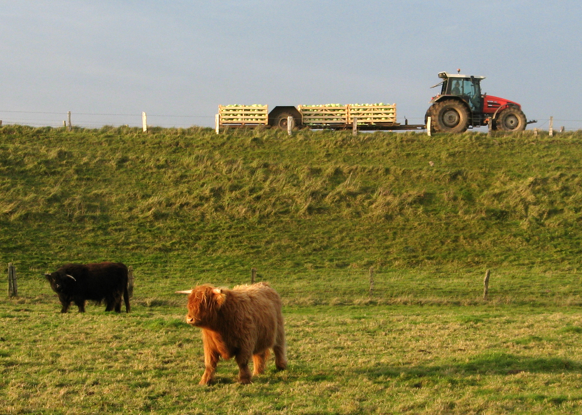 Cabbage harvest with Scottish Highland, Westerdeichstrich, Holstein, Germany